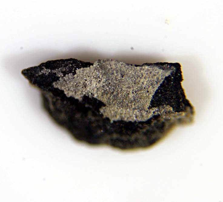 Yellowish and colorless crystals of acetamide in a small piece of matrix, one of the few organic compounds found in Nature. From: Shamokin, Northumberland County, Pennsylvania, United States of America. Acetamide has only been found in two localities worldwide.